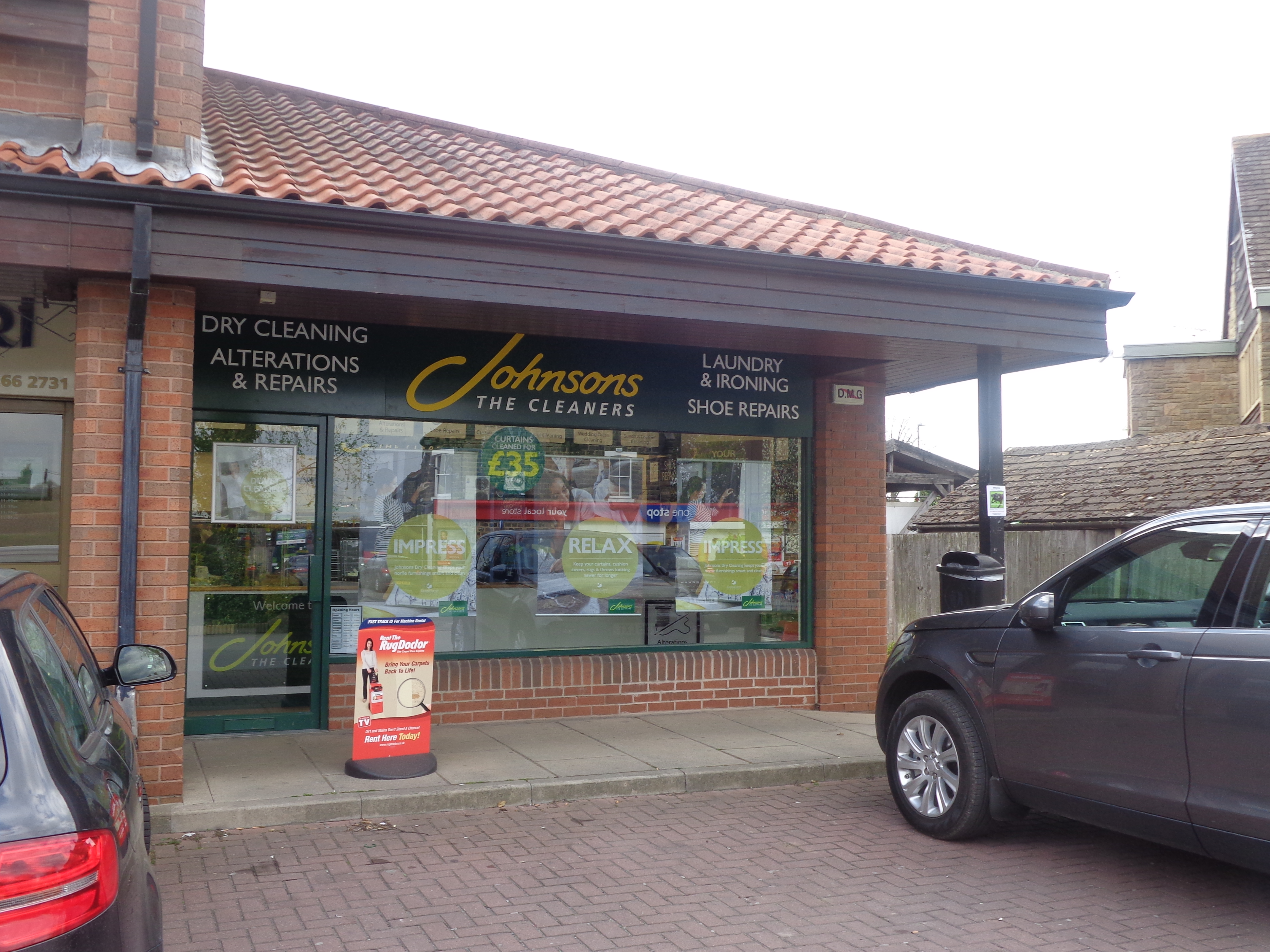 Johnsons the Cleaners, Wike Ridge Lane, Slaid Hill, Leeds, West Yorkshire. Taken on the afternoon of Monday the 27th of April 2015.